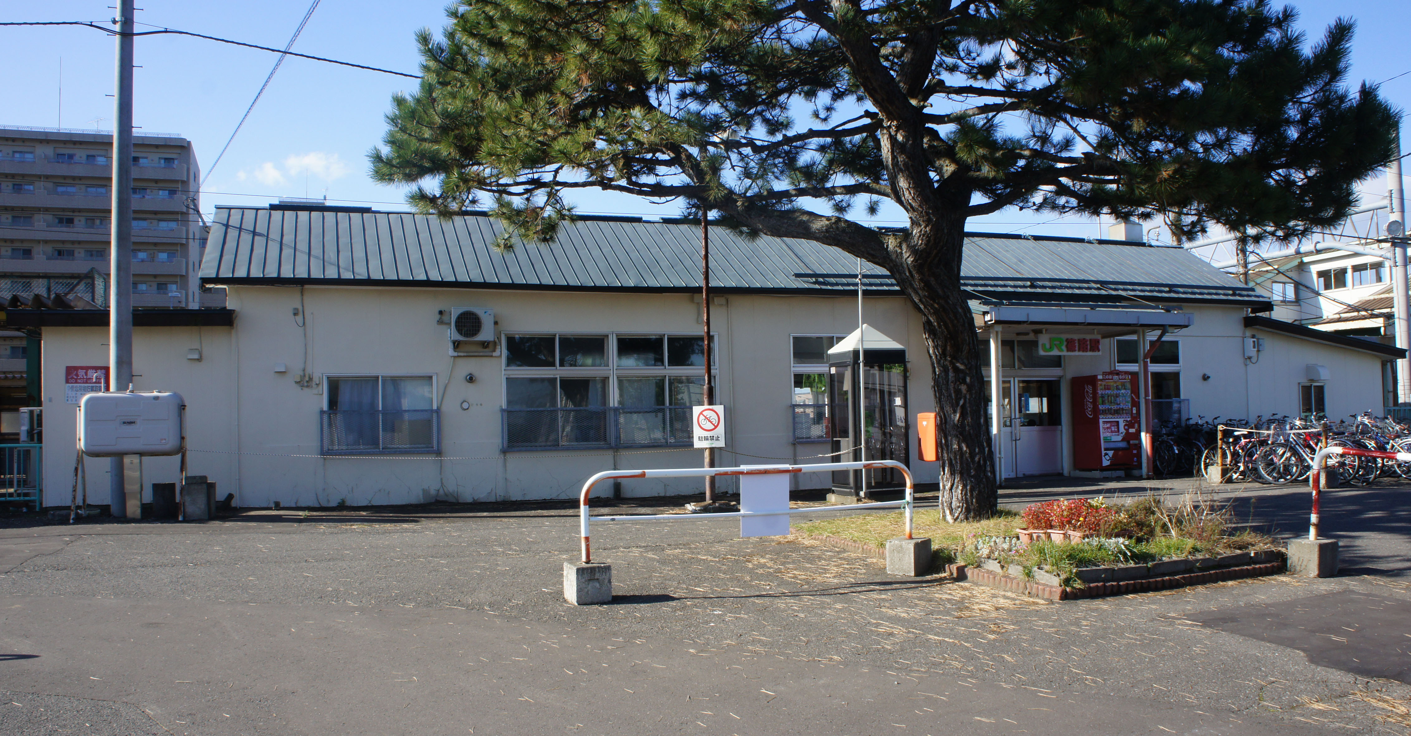 East Exit of JR Sassho-Line Shinoro Station Sony NEX-3